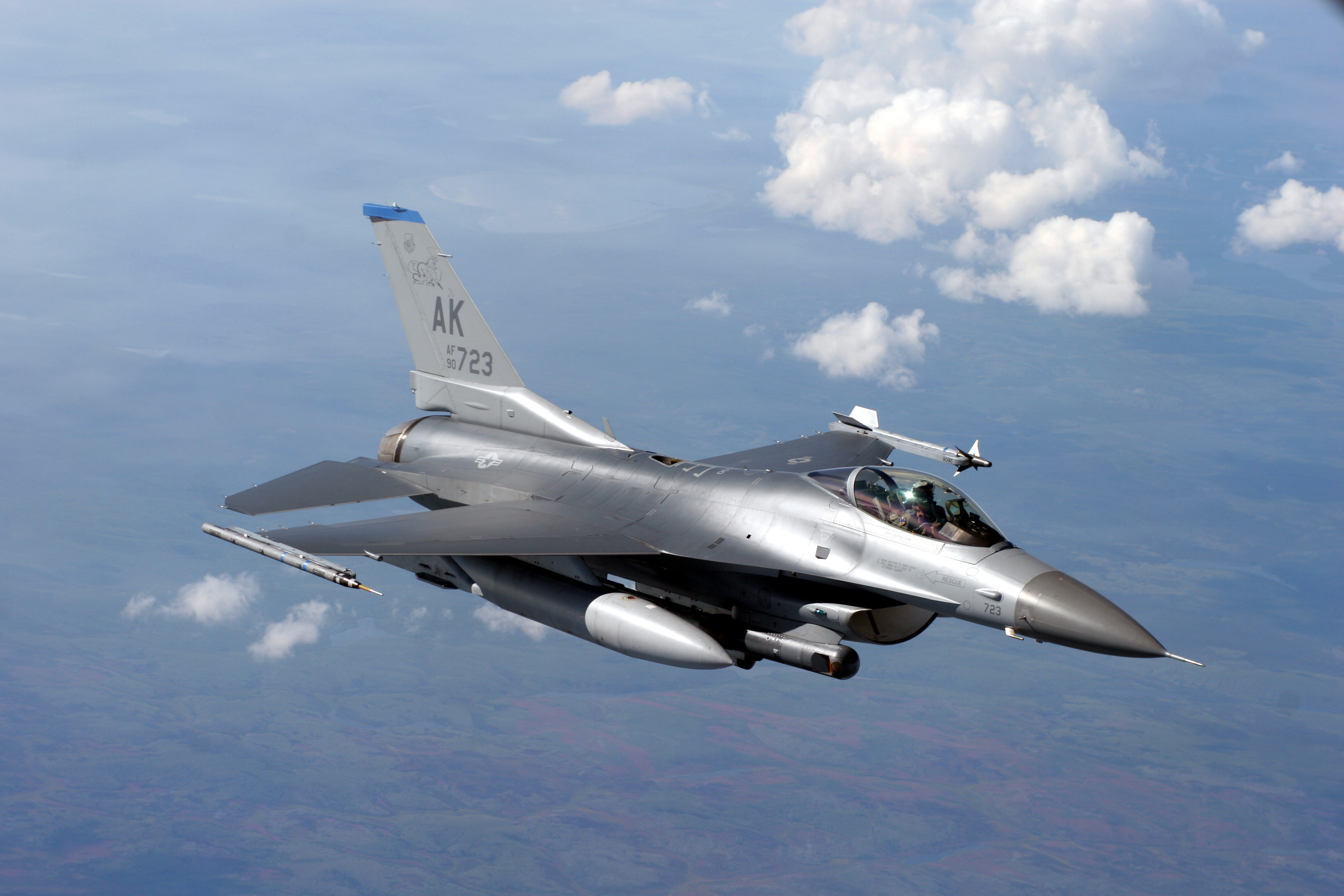 An F-16 Fighting Falcon aircraft from the 18th Fighter Squadron positions itself behind a KC-135 Stratotanker aircraft during exercise Red Flag in Alaska on July 20, 2007. More than 80 aircraft and 1,500 service members from six different countries are flying together to sharpen their combat skills in simulated combat sorties.